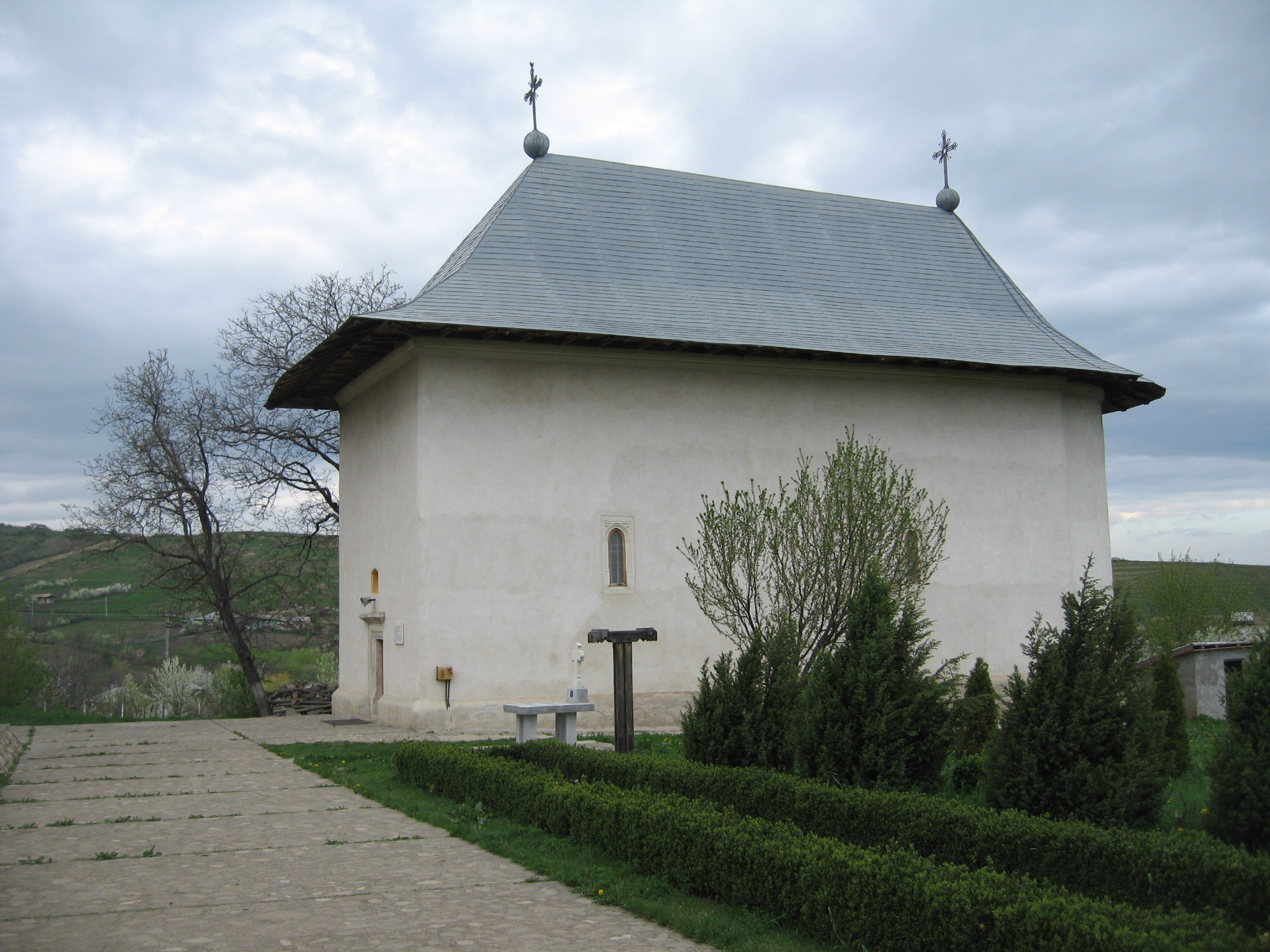 Biserica Cuvioasa Parascheva din Cotnari 01